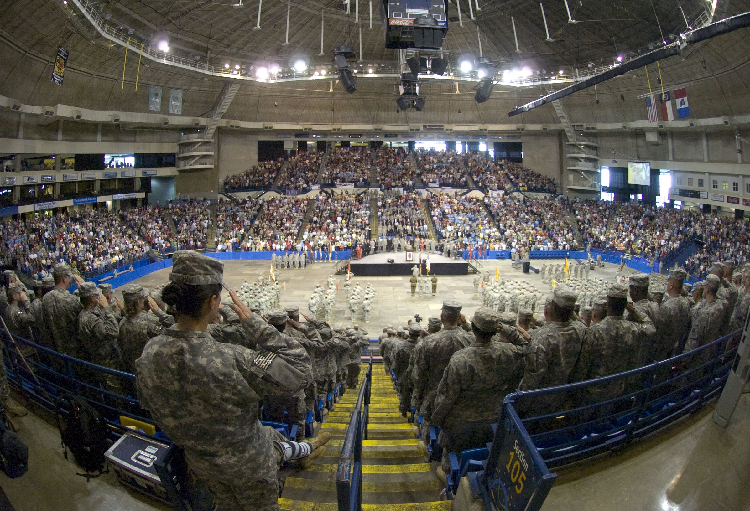 Soldiers and Army families from the 30th Heavy Brigade Combat Team, composed of National Guardsmen drawn from North Carolina, West Virginia, and Colorado, participate in a departure ceremony marking the beginning of the HBCT's second deployment in support of Operation Iraqi Freedom, April 14, 2009, at the Crown Coliseum in Fayetteville, N.C. During the ceremony, Army Secretary Pete Geren recognized the contributions and sacrifices of family members and encouraged community members to continue their support throughout the upcoming deployment. See more at Army.mil